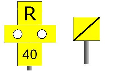 Repeating warning board and SPATE indicator for UK railway speed restrictions